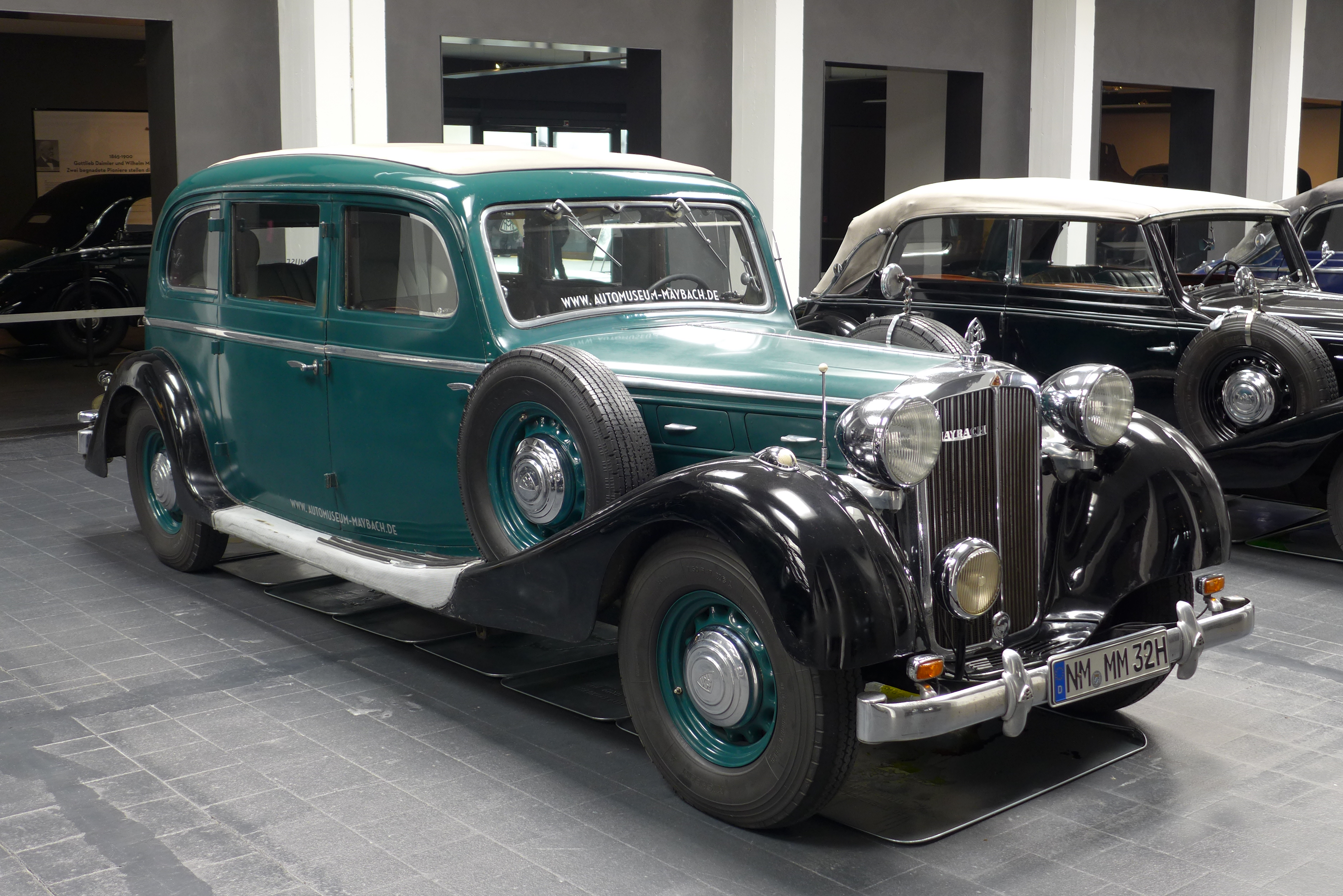 A 1939 Maybach SW 38 first owned by Franz Rudolf Bornewasser, Bishop of Trier (1922-1951) on display at the Museum for Historical Maybach Vehicles, Neumarkt in der Oberpfalz, Bavaria, Germany.